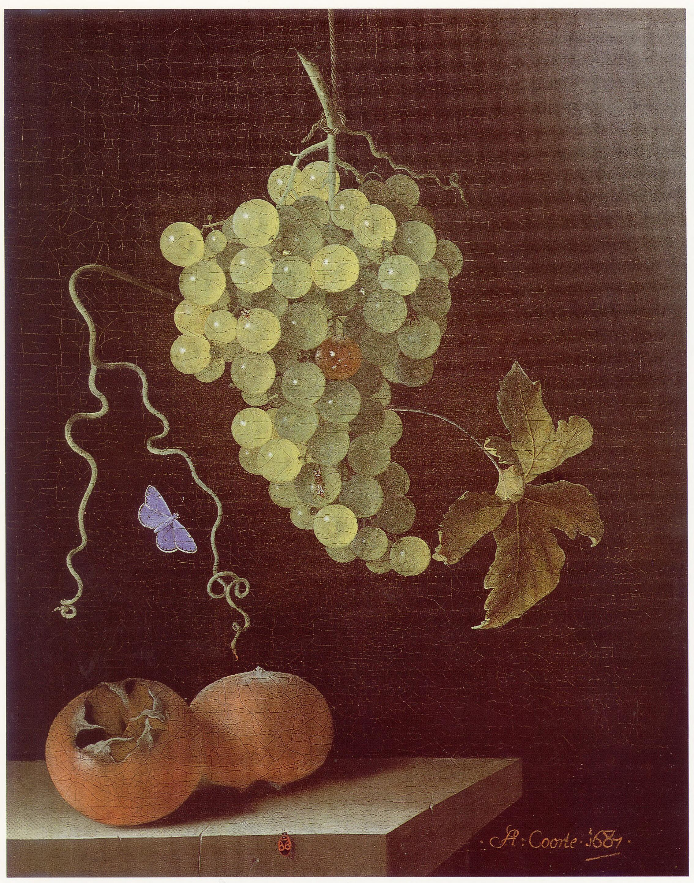 This image is available from the Netherlands Institute for Art Historyunder digital ID 121688. This tag does not indicate the copyright status of the attached work. A normal copyright tag is still required. See Commons:Licensing.